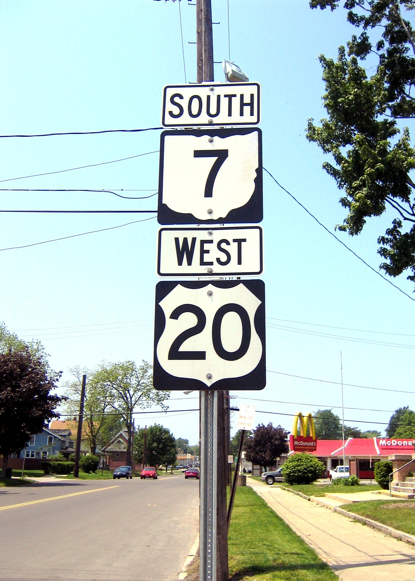 —Public Domain Sign for U.S. Route 20 and Ohio State Highway 7 in Conneaut